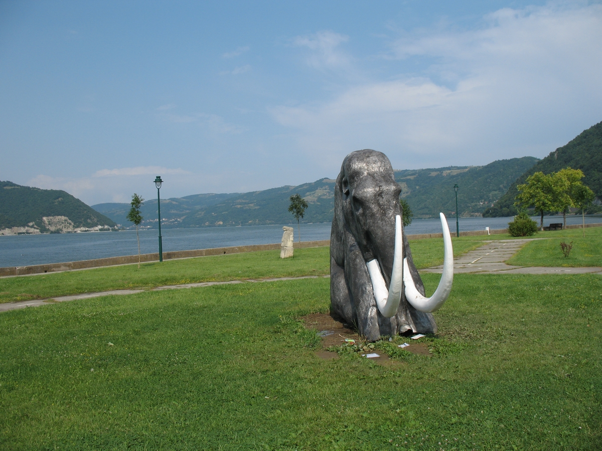 Sculpture of Mammut in Donji Milanovac on Danube in Serbia